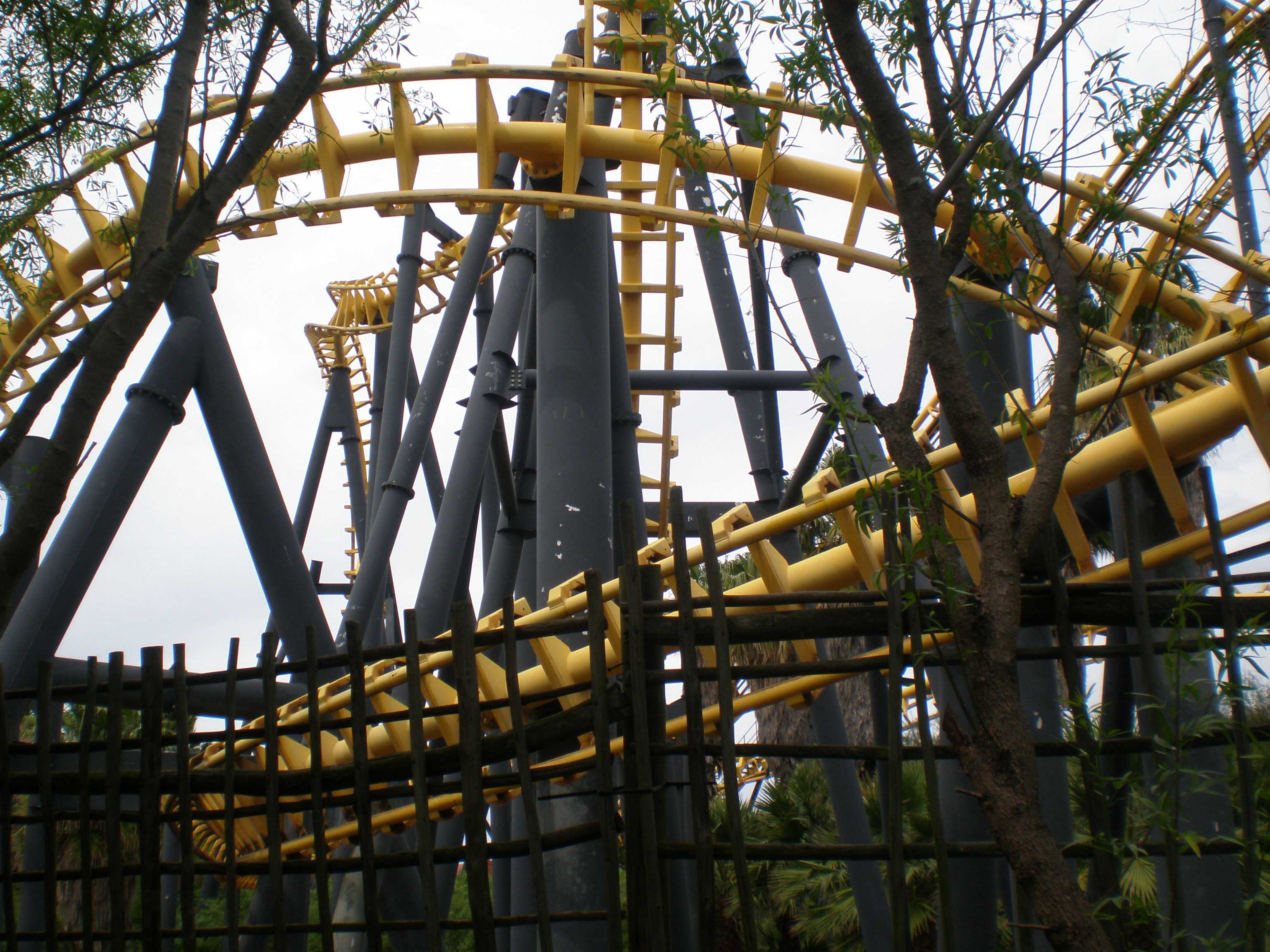 The twists and turns of the cobra